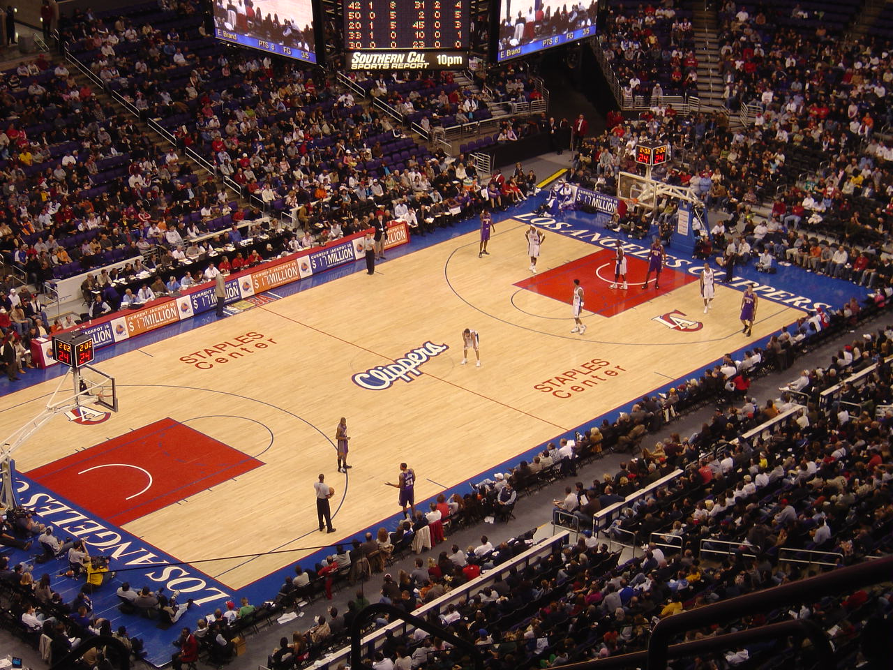 LA Clippers vs. Phoenix Suns, NBA game at Staples Center